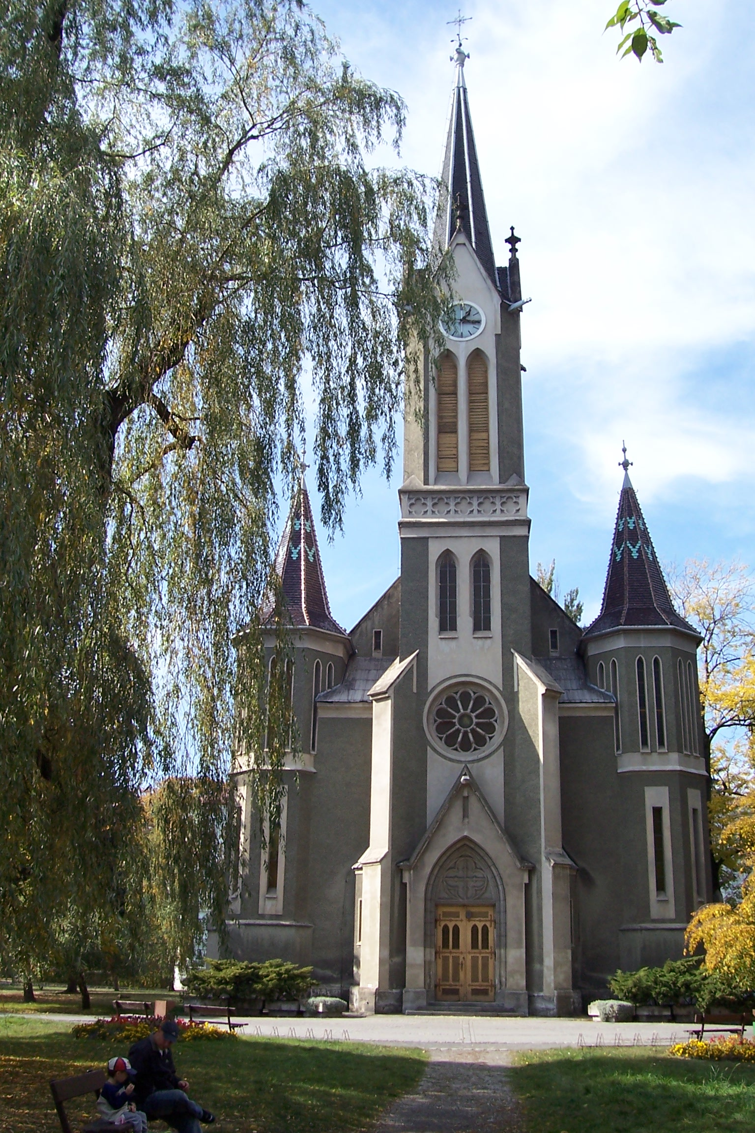 Church of Czech brethren evangelical church in Krnov